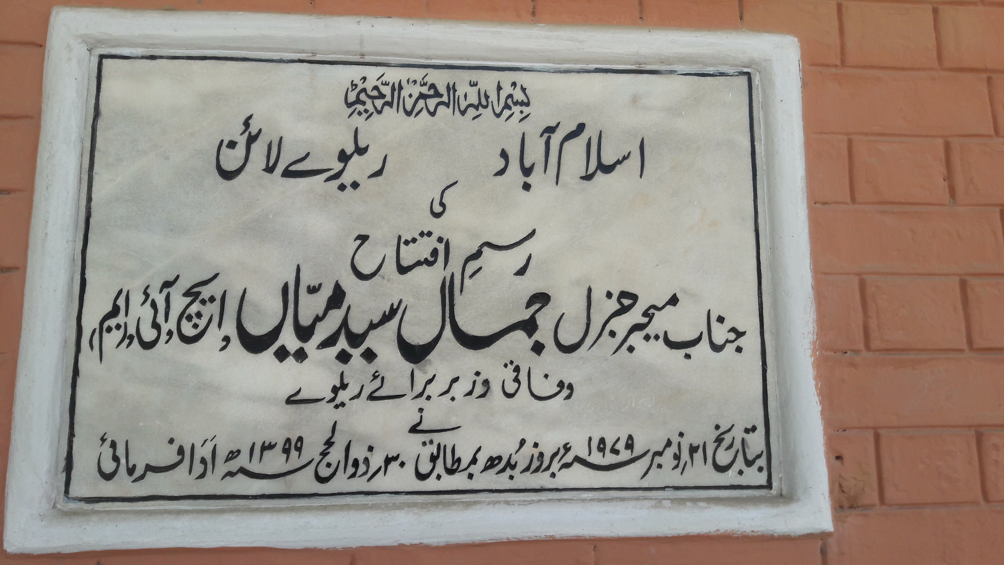 Islamabad Railway Station (Margalla)